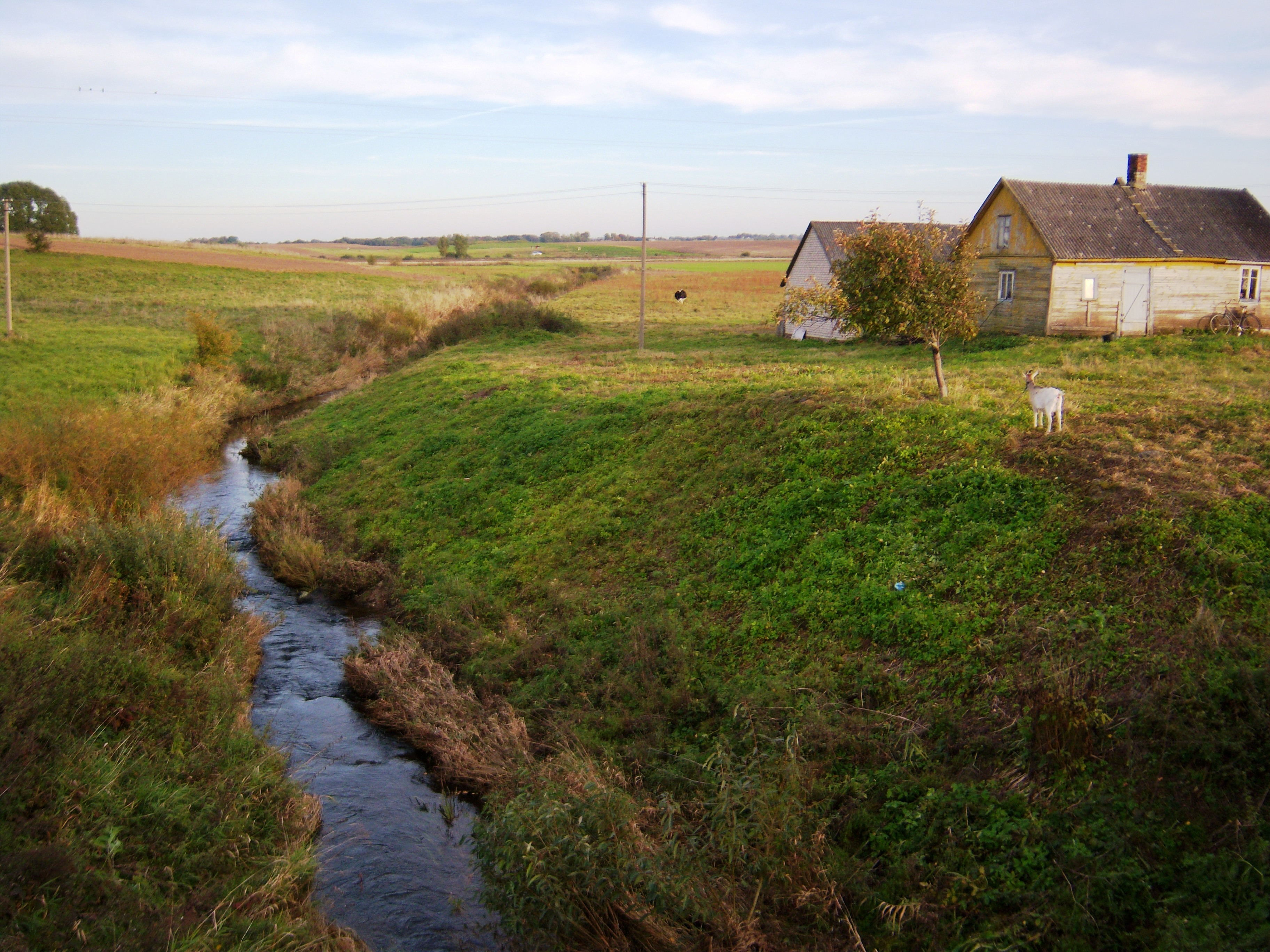 Zanyla Stream, Vilkaviškis District, Lithuania